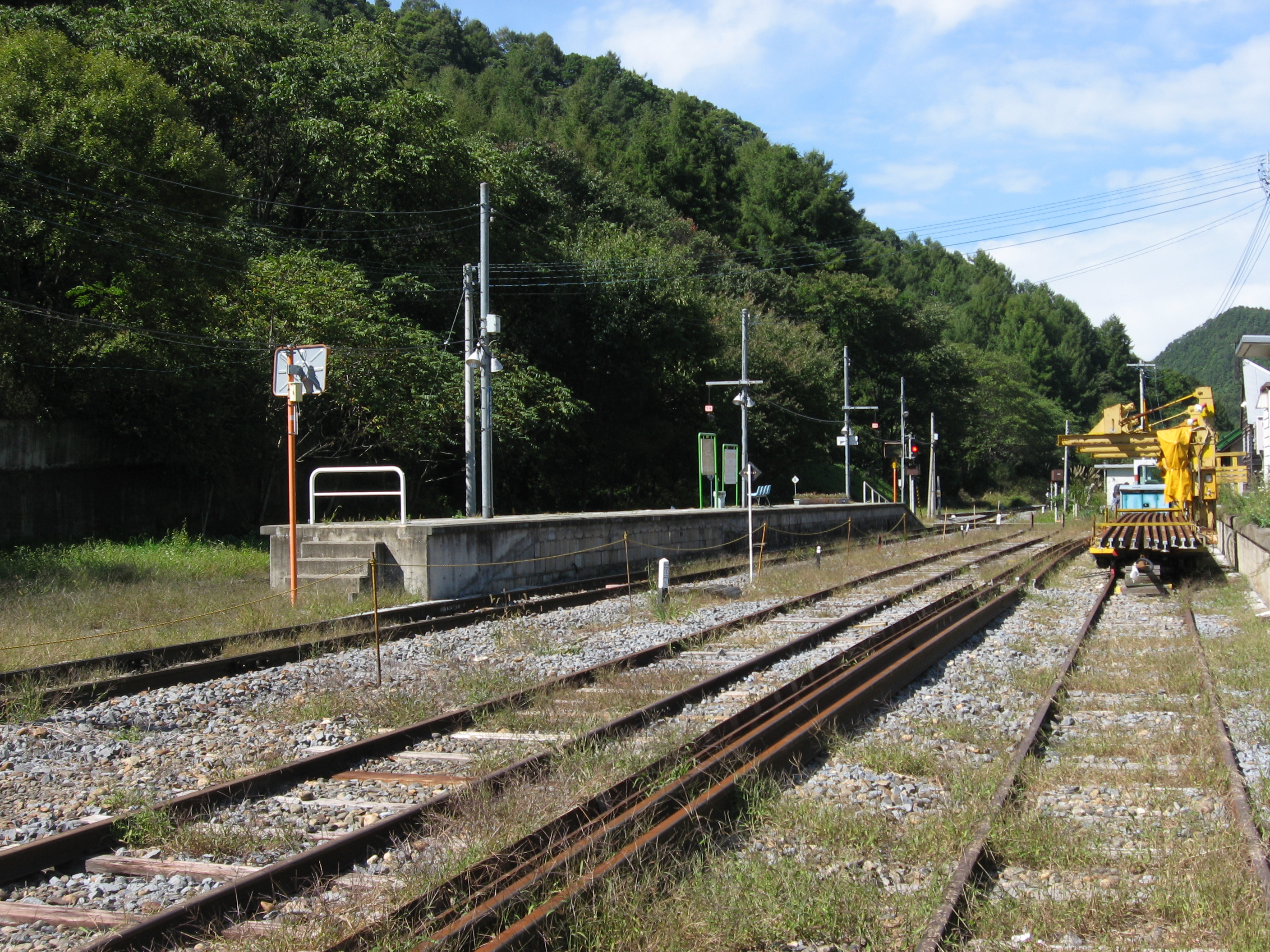 Koumi Line Shinano-Kawakami Station platform